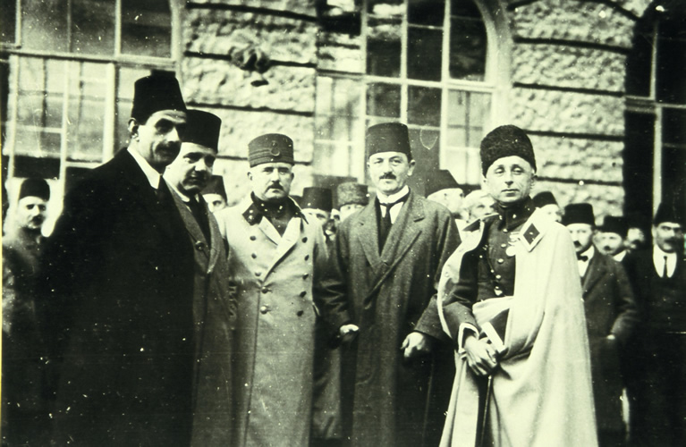 Founders of the Progressive Republican Party, 1924 or 1925, in front to the Haydarpaşa Terminal. Left to right: Adnan (Adıvar), Ali Fuat (Cebesoy), Kâzım Karabekir, Rauf (Orbay), and Refet (Bele)